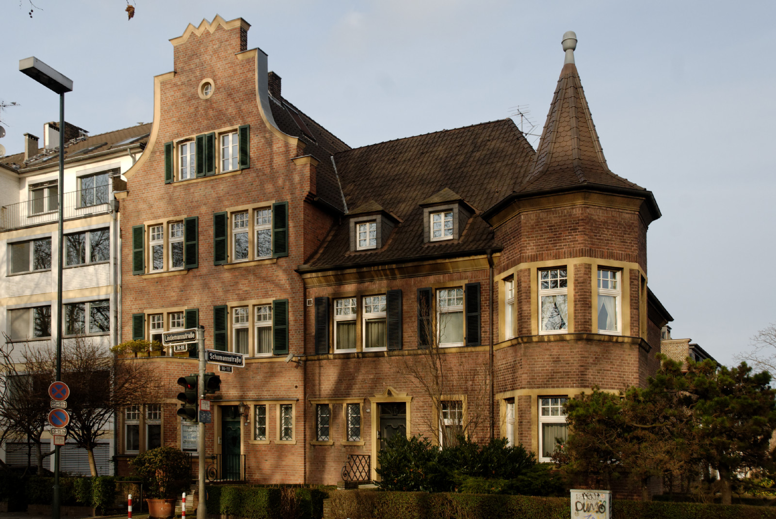 House Lindemannstraße 66, 68 in Düsseldorf-Düsseltal, Germany